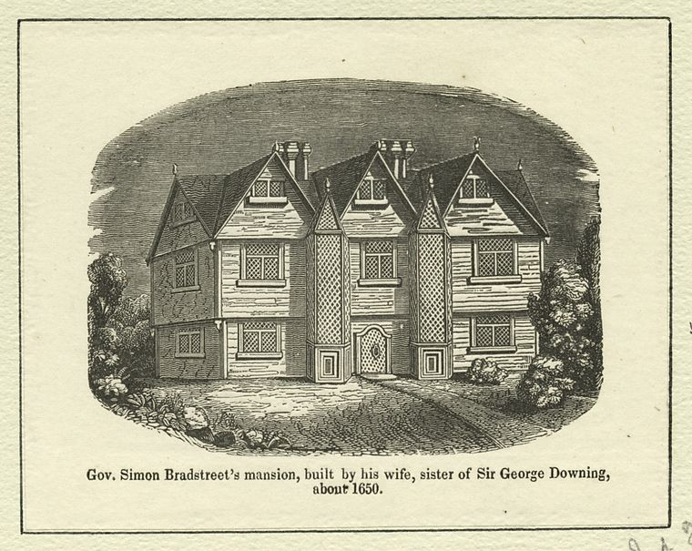 "Gov. Simon Bradstreet's mansion, built by his wife, sister of Sir George Downing, about 1650," illustration from "Pictorial Fieldbook of the Revolution," by Benson J. Lossing. Courtesy of the New York Public Library Digital Collection.